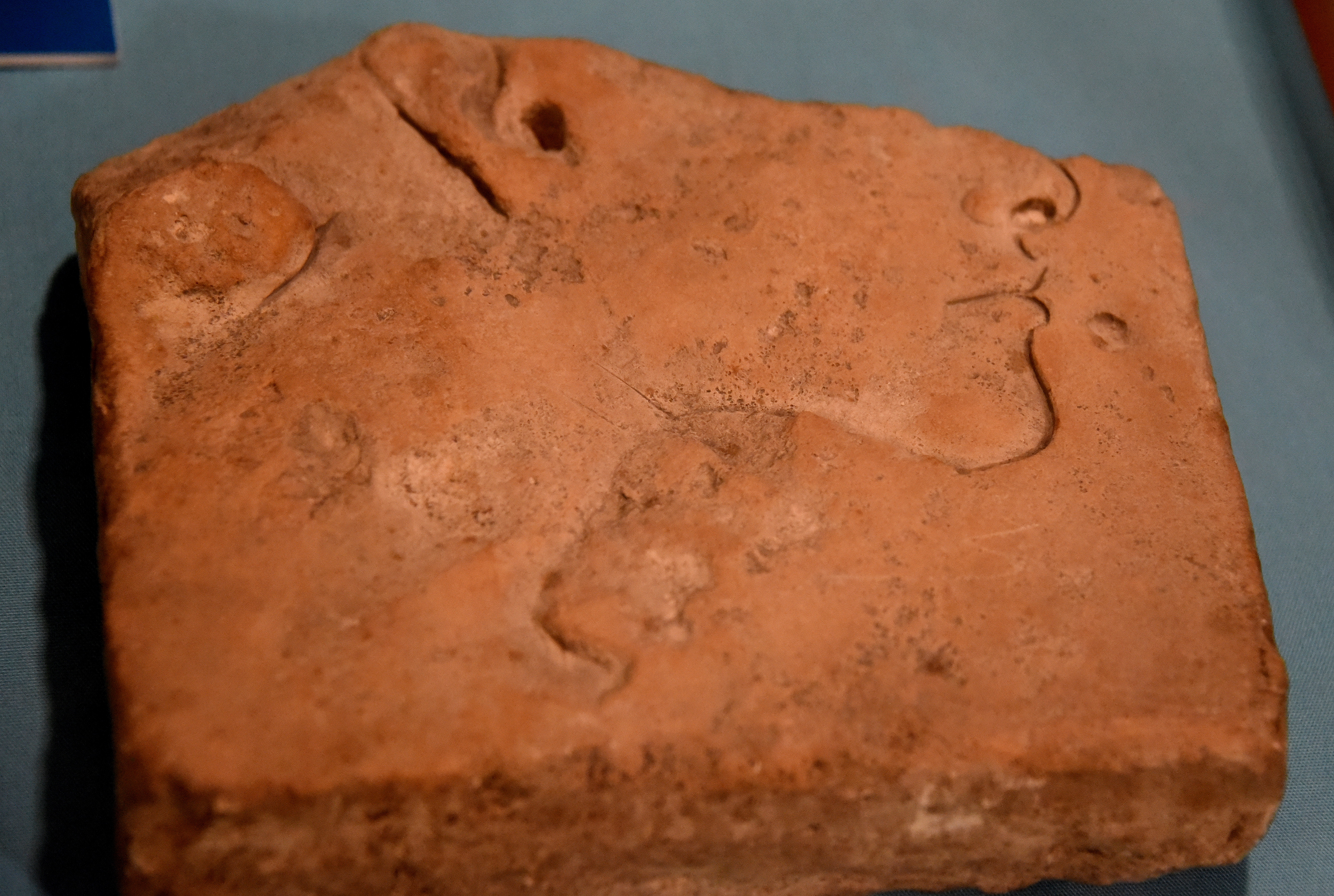 Limestone trial piece showing the distinctive Amarna-style elongation of Akhenaten's face. Shallow sunk relief. Reign of Akhenaten. From Amarna, Egypt. The Petrie Museum of Egyptian Archaeology, London. With thanks to the Petrie Museum of Egyptian Archaeology, UCL.